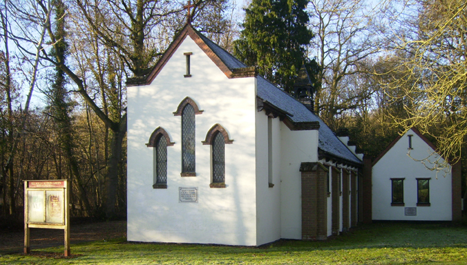 All Souls' Church, Sutton Green, Surrey, UK. Picture taken from New Lane.